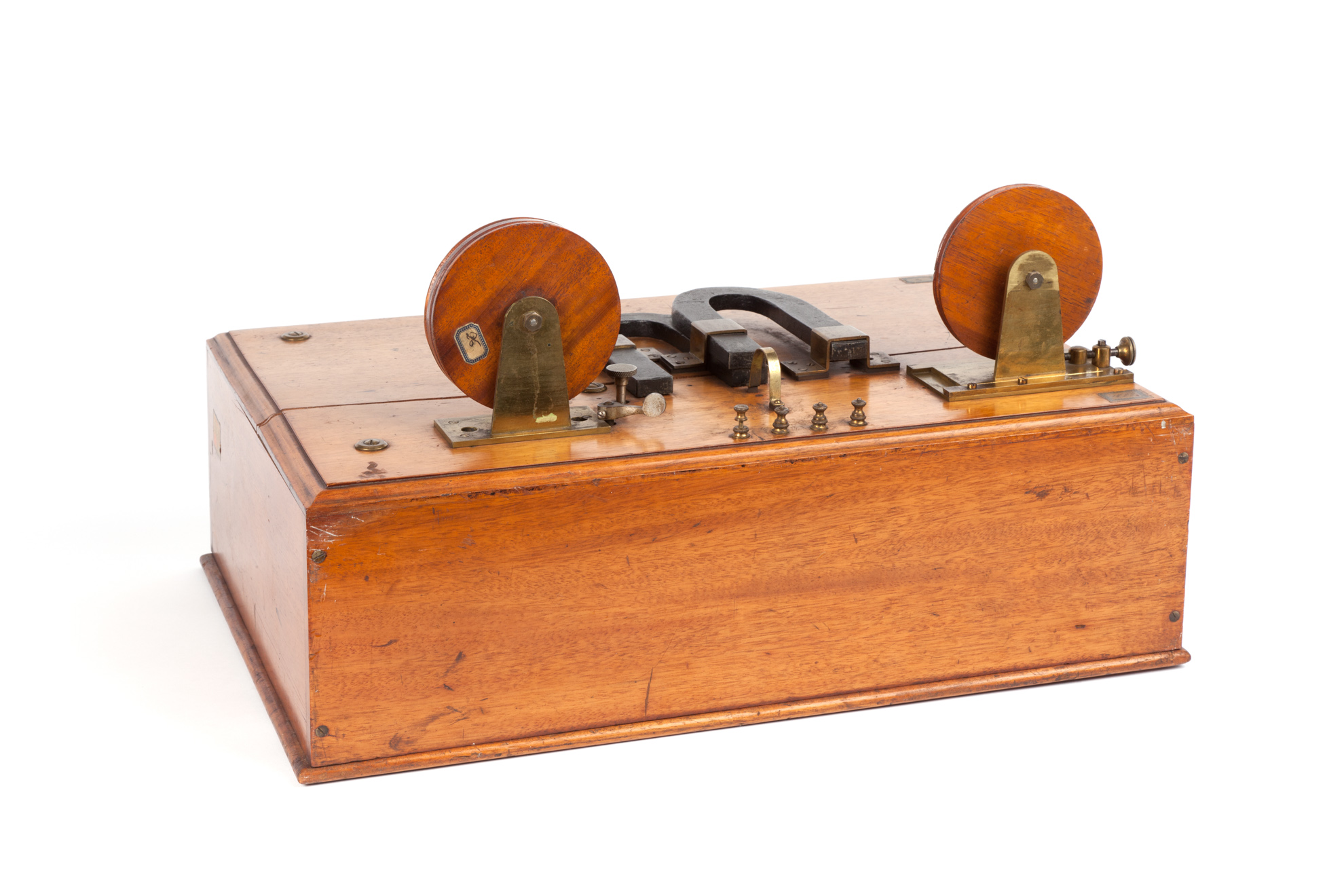 One of the earliest prototype magnetic detectors, built by inventor Guglielmo Marconi and used in his wireless experiments on board the ship Carlo Alberto in the summer of 1902. The magnetic detector was a primitive radio wave detector used in the first wireless telegraphy radio receivers from its invention in 1902 to about 1915, when it was replaced by vacuum tubes. An endless band of iron wires (apparently missing from this device) was rotated around the two pulleys. driven by a windup clockwork mechanism in the box. The wires passed through a coil attached to the antenna, in the magnetic field produced by the two horseshoe magnets (center). When a radio wave from the antenna passed through the coil, it's oscillating magnetic field overcame the hysteresis of the iron wires, magnetizing them. This produced a pulse of current in a second coil around the wires, attached to an earphone. The signals produced by the early spark gap transmitters consisted of pulses of damped radio waves, repeating at an audio rate, so in the earphone the received signal sounded like musical beeps. Text messages were transmitted in the sequence of beeps by Morse code, which the operator decoded. Exhibited at National Museum of Science and Technology Leonardo da Vinci in Milan, Italy.